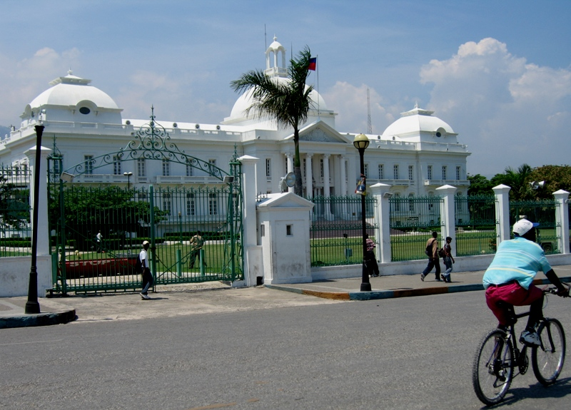 Presidential Palace of Haiti in Port-au-Prince, also known as Haitian White House. It collapsed due to an 7.0 on the Richter scale earthquake on January 12th, 2010. Michelle Walz Eriksson